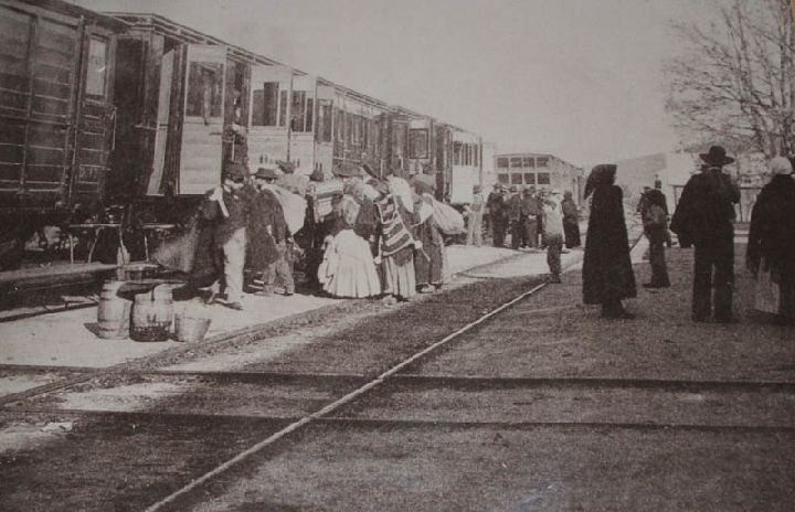 Train station in Almendricos (Lorca) in 1891.